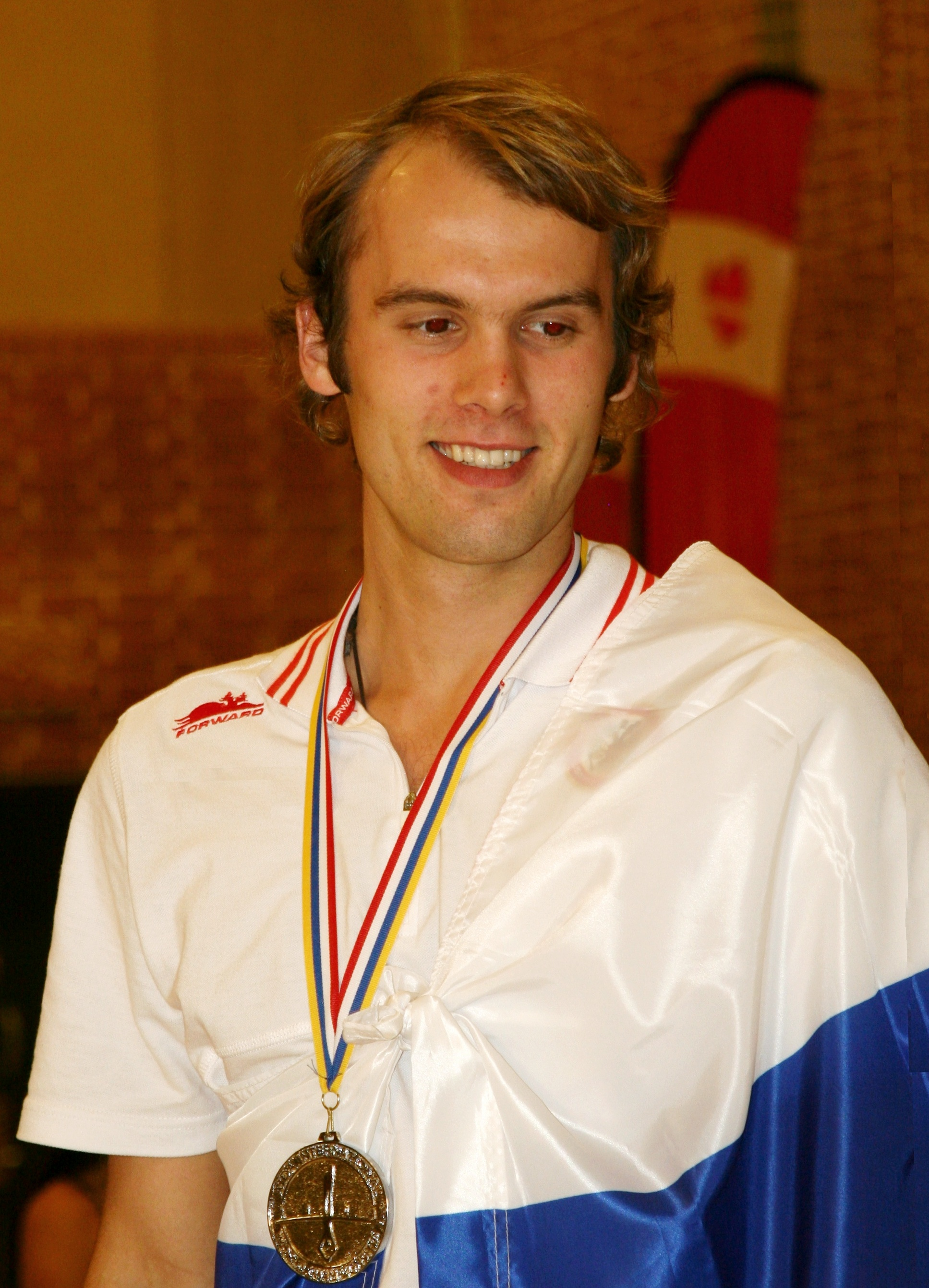 Alexey Molchanov, Danmark, Aarhus, 5th Individual freediving World Championship, 2009